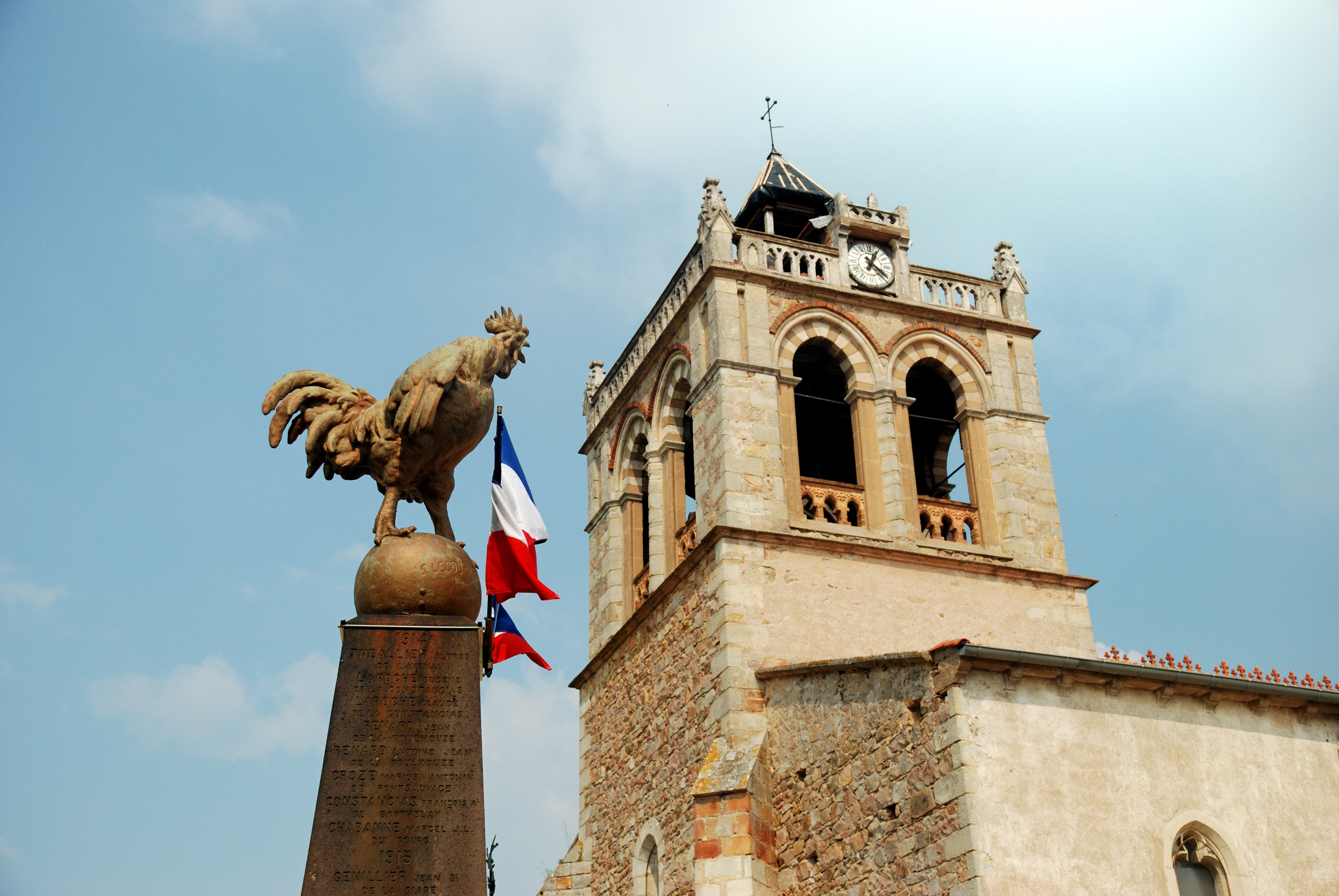 commune of Sermentizon : church tower and war memorial, (Puy-de-Dôme, France).